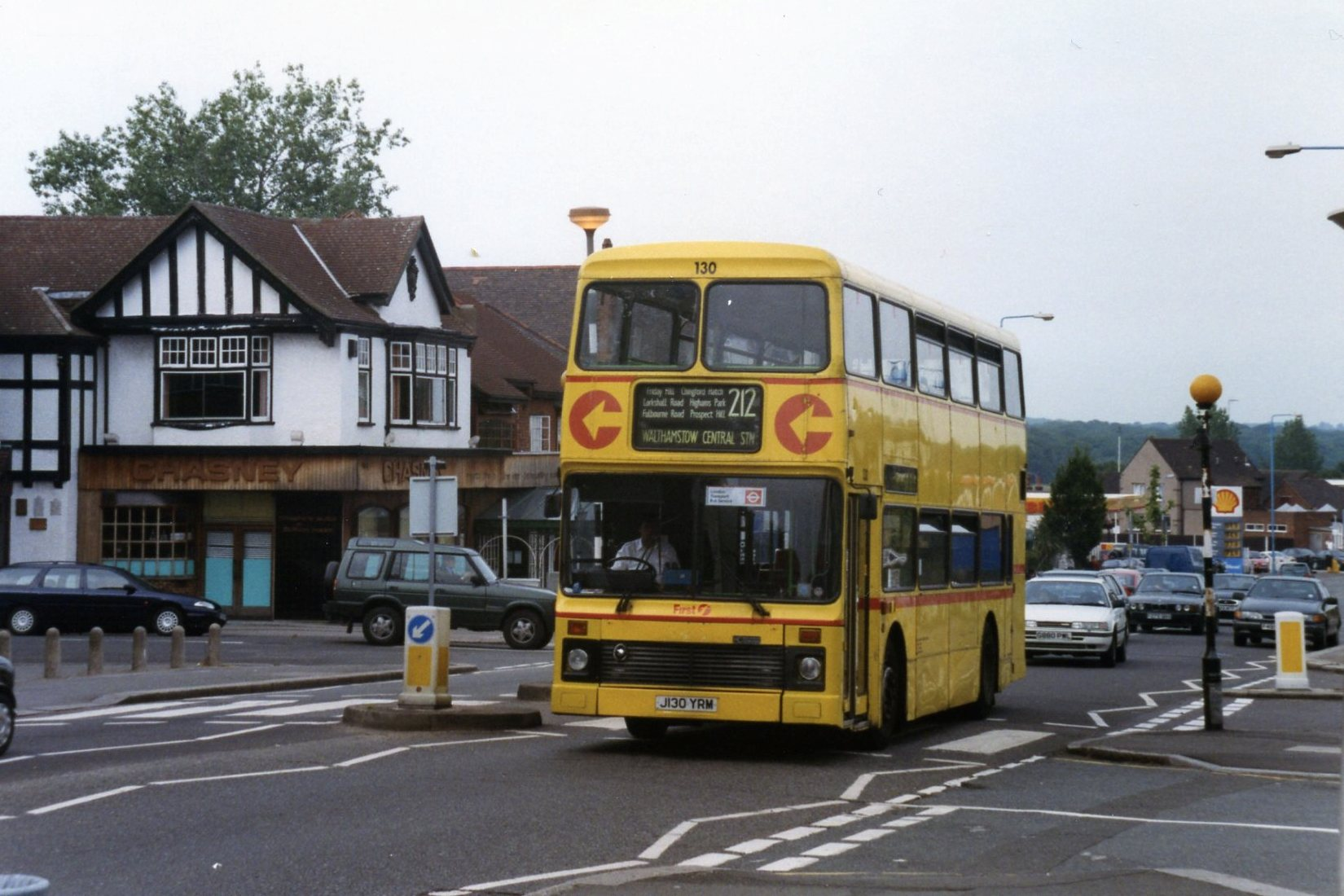 Capital Citybus 130 (J130 YRM), a Leyland Olympian with Northern Counties bodywork, operating route 212 at Chingford station in June 1999. Capital Citybus is now part of First London.